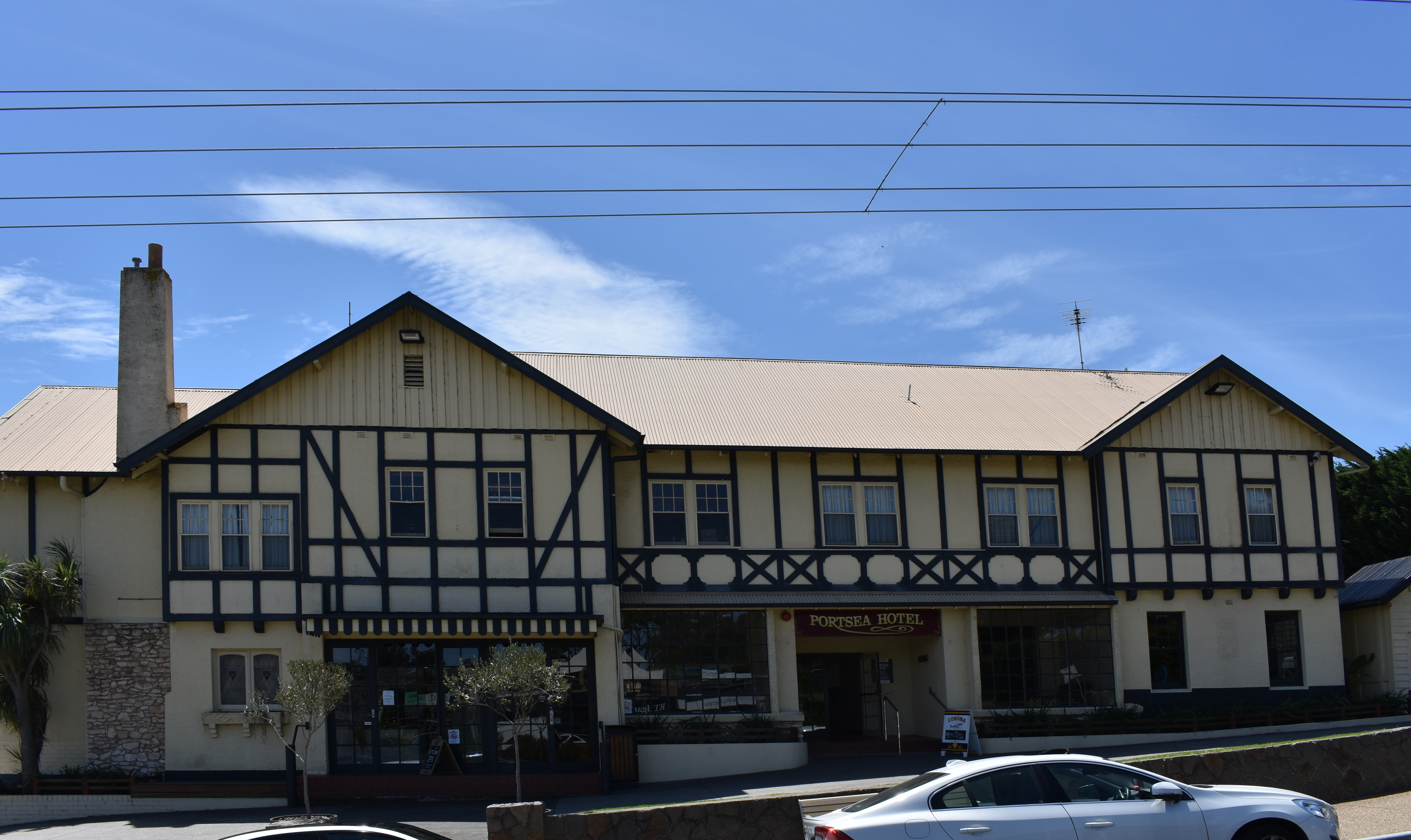 Portsea Hotel at Portsea, Victoria